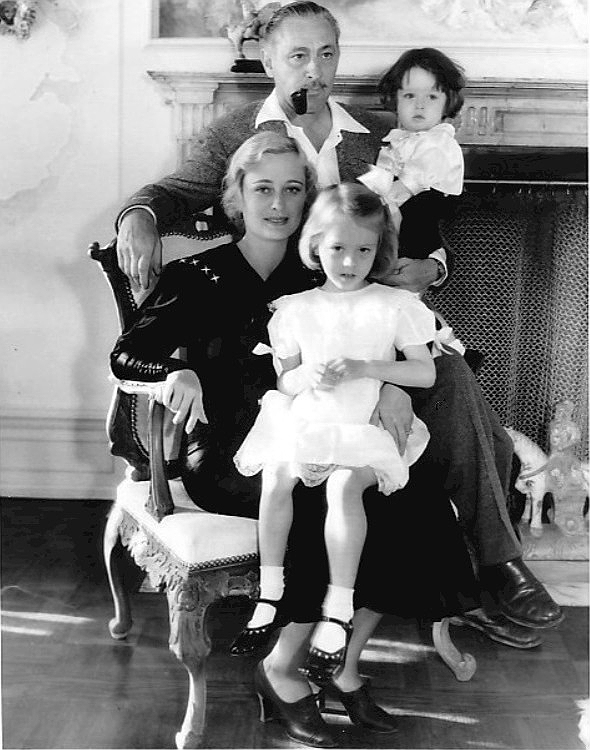 Photo of John Barrymore and family in 1934. Standing:John Barrymore holding John Drew Barrymore. Seated: Dolores Costello Barrymore with Dolores Barrymore on her lap.